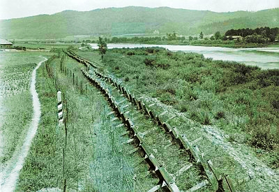 German-Soviet Union Border - San River